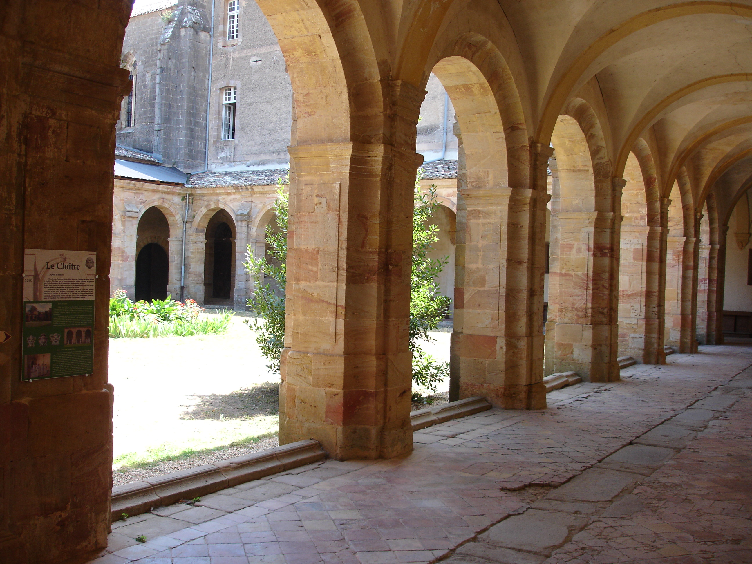 Cloister of the Lagrasse's abbey